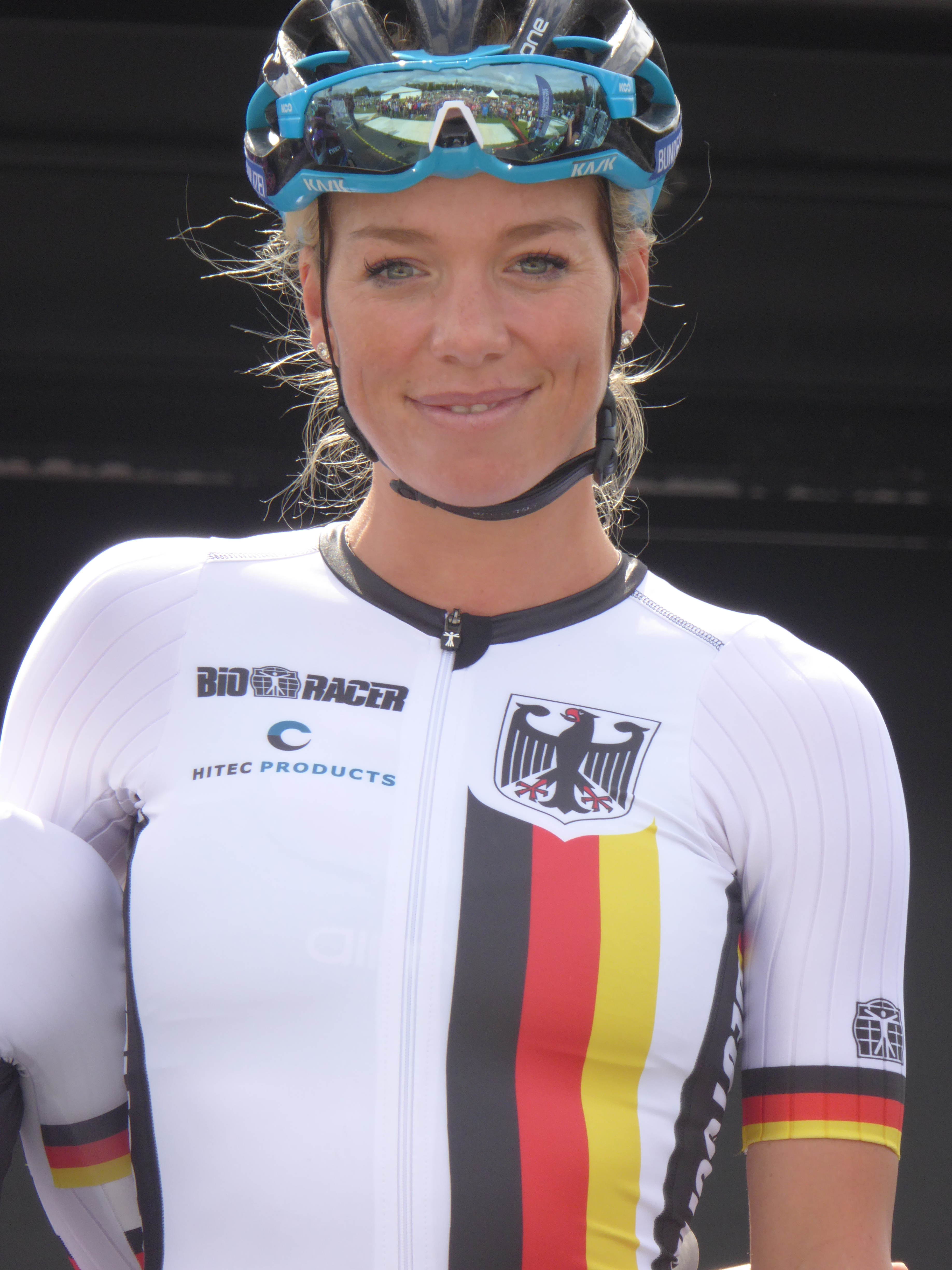 Charlotte Becker (Germany), prior to the women's road race at the 2018 UEC European Road Cycling Championships in Glasgow.